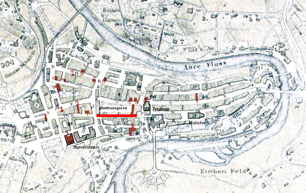 City plan of Bern, 1882. Scanned from BERN: Eine Stadt vor 100 Jahren, Bilder und Berichte; Peter Lauenberger, Emil Erne; München 1997; p. 7. Originally from Bern und seine Umgebungen, C.H. Mann, 1882 in the Alpines Museum of Bern. Due to the age of the image, it must be assumed that the author has been dead for more than 70 years. Copyright protection has therefore lapsed under Swiss copyright law (Art. 29 par. 3 URG).